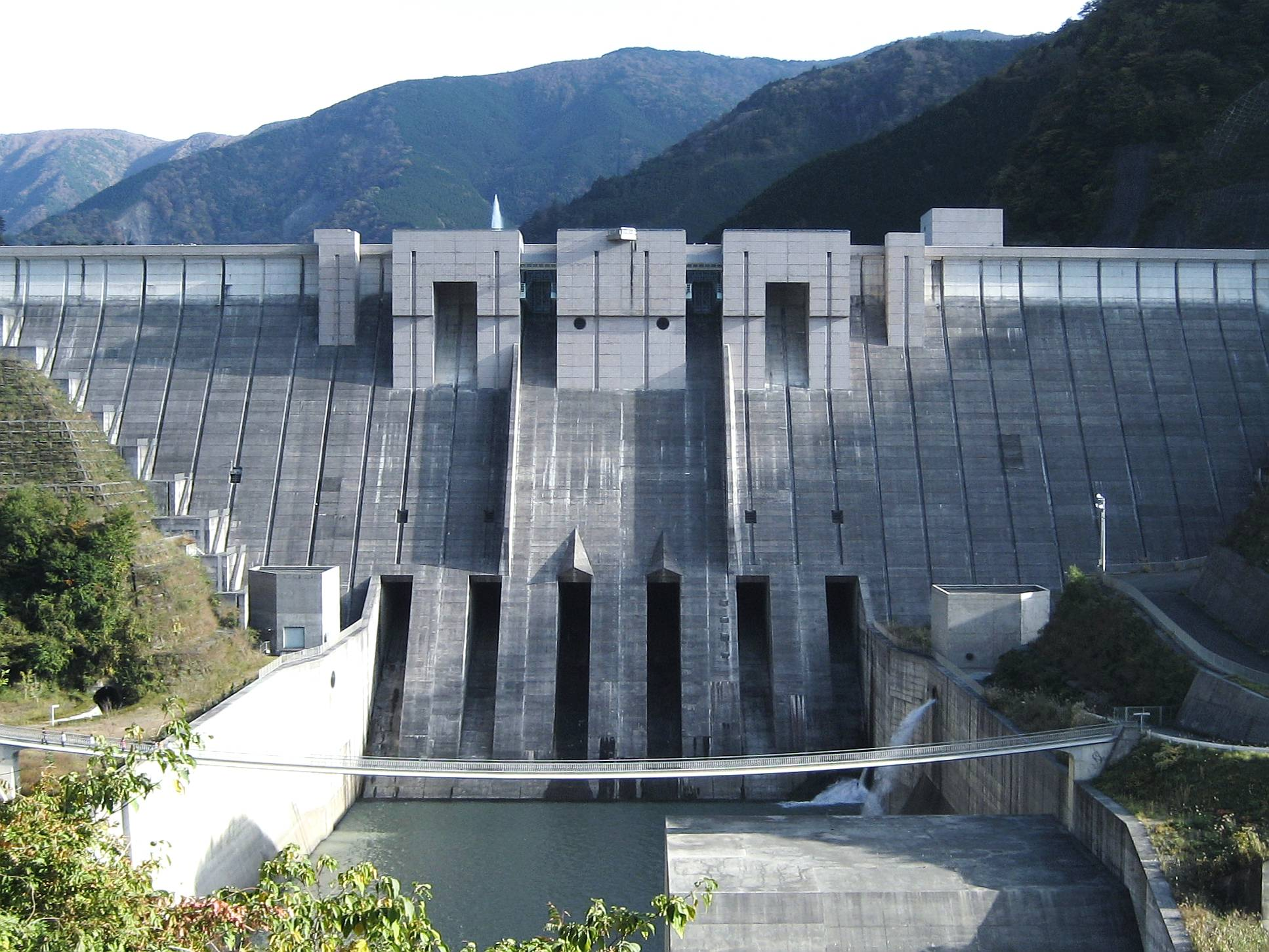 Nagashima Dam.